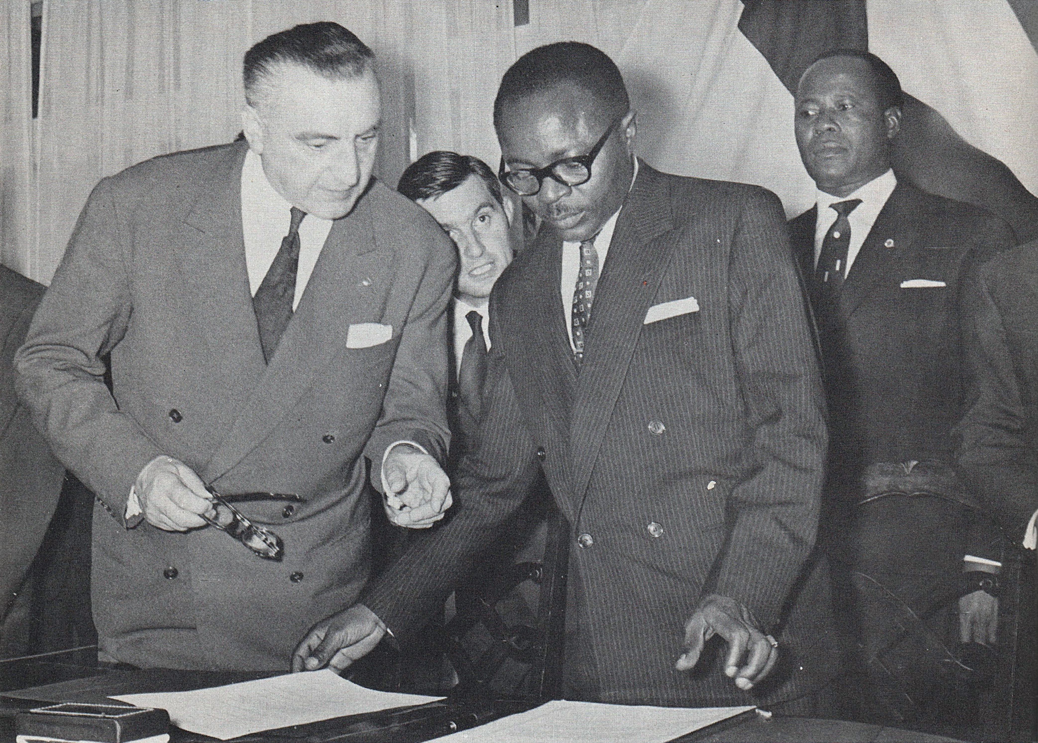 Maurice Yaméogo and Louis Jacquinot exchanging instruments of ratification for the independence of the Upper Volta on 4 August 1960